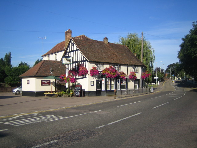 London Colney: The Bull A fine floral display outside the pub is caught in the early morning sunshine. As befits its history as the last stagecoach stop before London there are at least seven public houses in London Colney on or very near this road, of which The Bull is one. The road, which was the old A6 and is now just plain old Barnet Road, rises up to London Colney bridge 74472 in the distance.